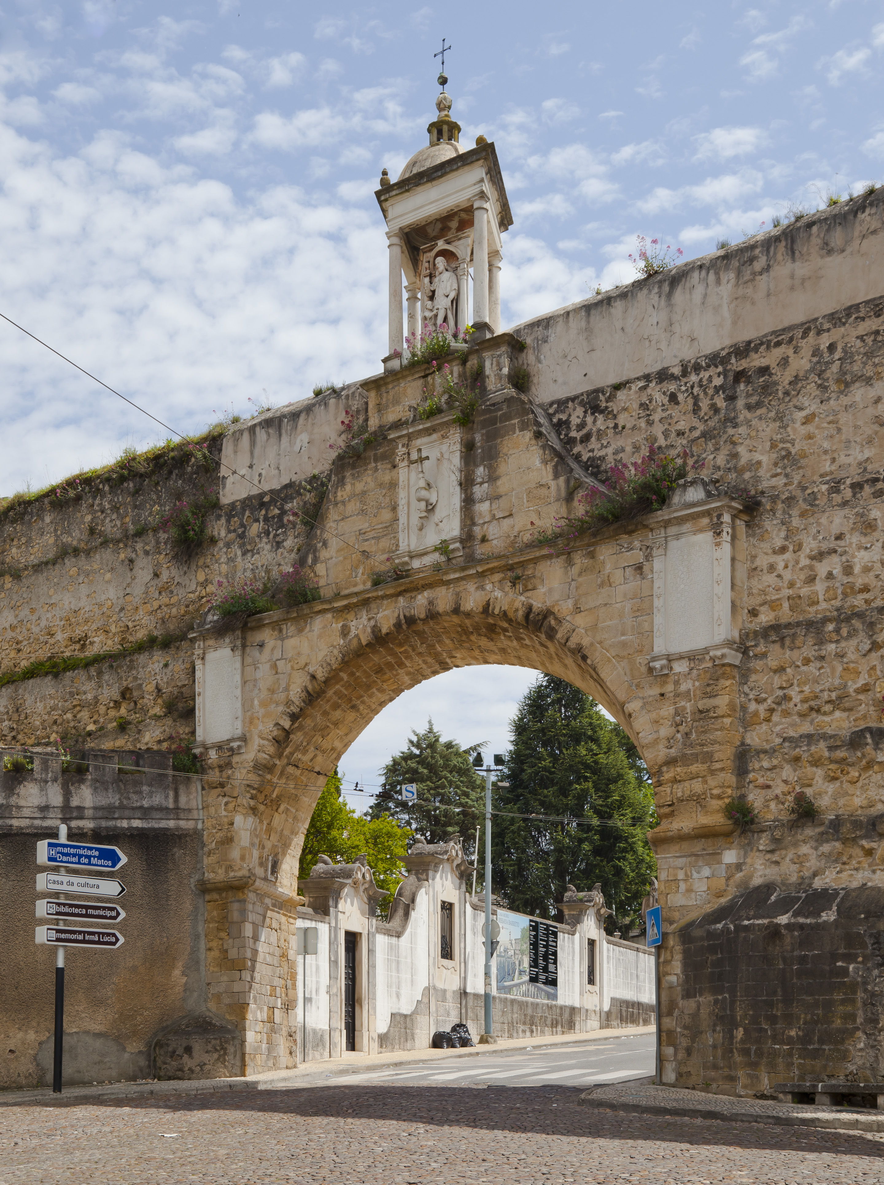 Aqueduct of San Sebastian, Coimbra, Portugal